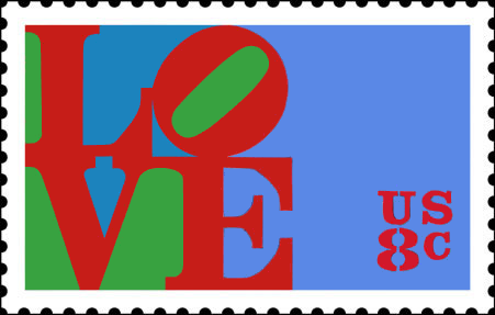 United States Postal Service 8c LOVE Stamp issued in 1973, designed by Robert Indiana